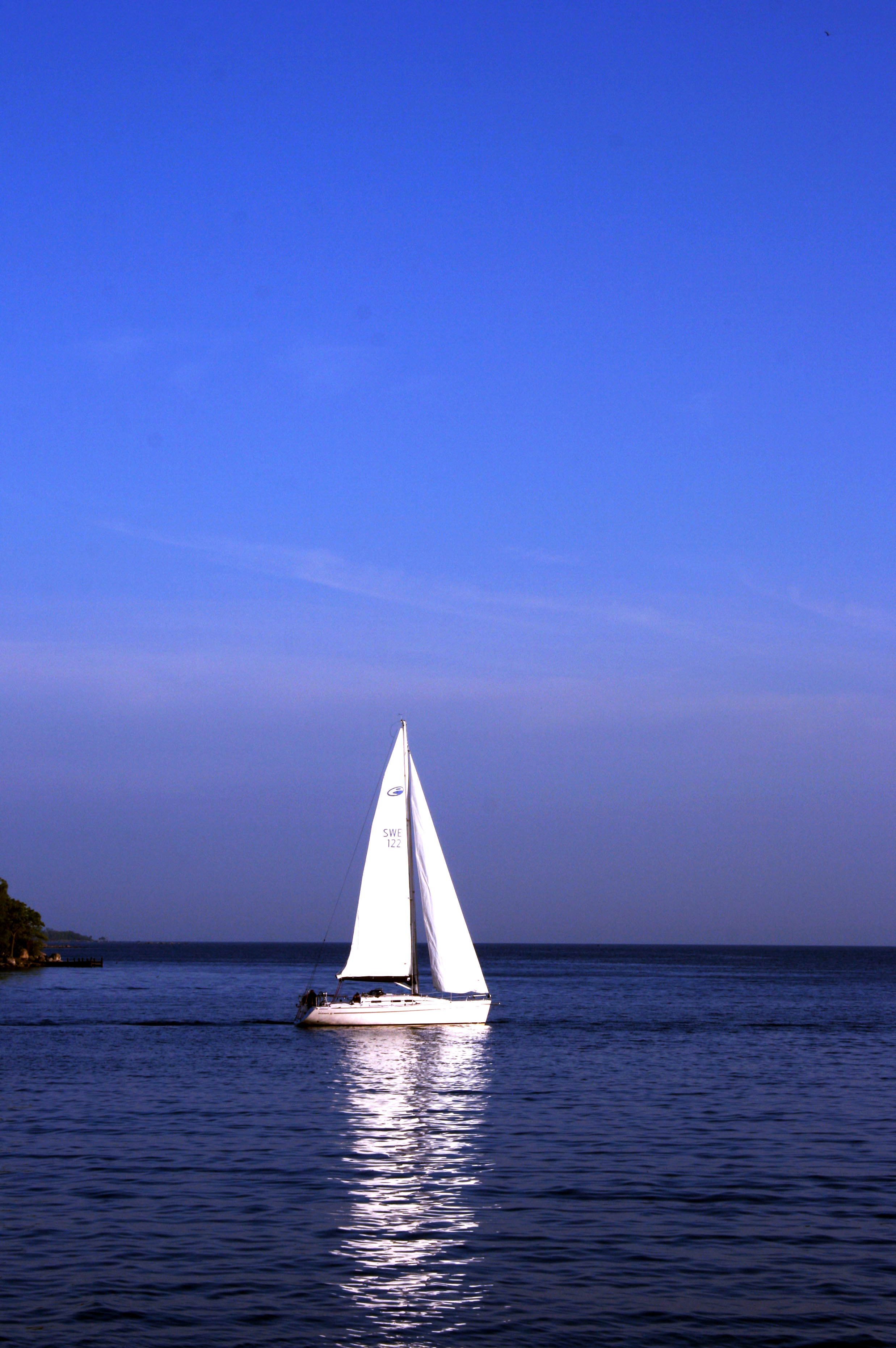 A sailboat in Blekinge, Sweden